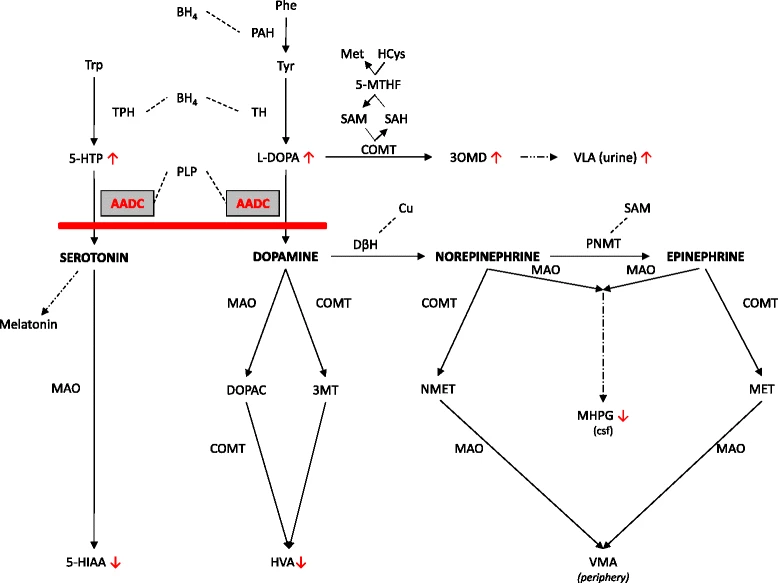 Biosynthesis and breakdown of serotonin and the catecholamines, and the metabolic block in AADC deficiency. Simplified scheme of the biosynthesis and breakdown of serotonin and the catecholamines (dopamine, norepinephrine and epinephrine), and melatonin synthesis. Cofactors (BH4, PLP, Cu) and methyldonor (SAM) are connected to the respective enzyme with dashed lines. Dashed arrows do not show intermediate steps. The metabolic block caused by AADC deficiency is shown as a red bar. Metabolites above the block are increased, metabolites below the block are decreased, indicated by red arrows. The implication of 5-MTHF in L-dopa to 3-OMD metabolism is shown in a simplified manner. Norepinephrine and epinephrine are broken down to NMET and MET only in the periphery. In CSF, the main metabolite of norepinephrine and epinephrine is MHPG. Abbreviations: AADC: aromatic l-amino acid decarboxylase; BH4: tetrahydrobiopterin; COMT: catechol O-methyl transferase; CSF: cerebrospinal fluid; Cu: cupper; DβH: dopamine beta hydroxylase; DOPAC: dihydroxyphenylacetic acid; HCys: homocysteine; 5-HIAA: 5-hydroxyindoleacetic acid; 5-HTP: 5-hydroxytryptophan; HVA: homovanillic acid; L-Dopa: 3,4-dihydroxyphenylalanine; MAO: monoamine oxidase; MET: metanephrine; Met: metionine; MHPG: 3-methoxy 4-hydroxyphenylglycol; 3MT: 3-Metyramine; 5-MTHF: methyltetrahydrofolate; NMET: normetanephrine; 3-OMD: 3-O-methyldopa (=3-methoxytyrosine); Phe: phenylalanine; PhH: phenylalanine hydroxylase; PNMT: phenylethanolamine N-methyltransferase; SAH: S-adenosylhomocysteine; SAM: s-adenosylmethionine; TH: tyrosine hydroxylase; TrH: tryptophan hydroxylase; Tryp: tryptophan; Tyr: tyrosine; VLA: vanillactic acid; VMA: vanillmandelic acid: Vit B6 vitamin B6 (pyridoxine)